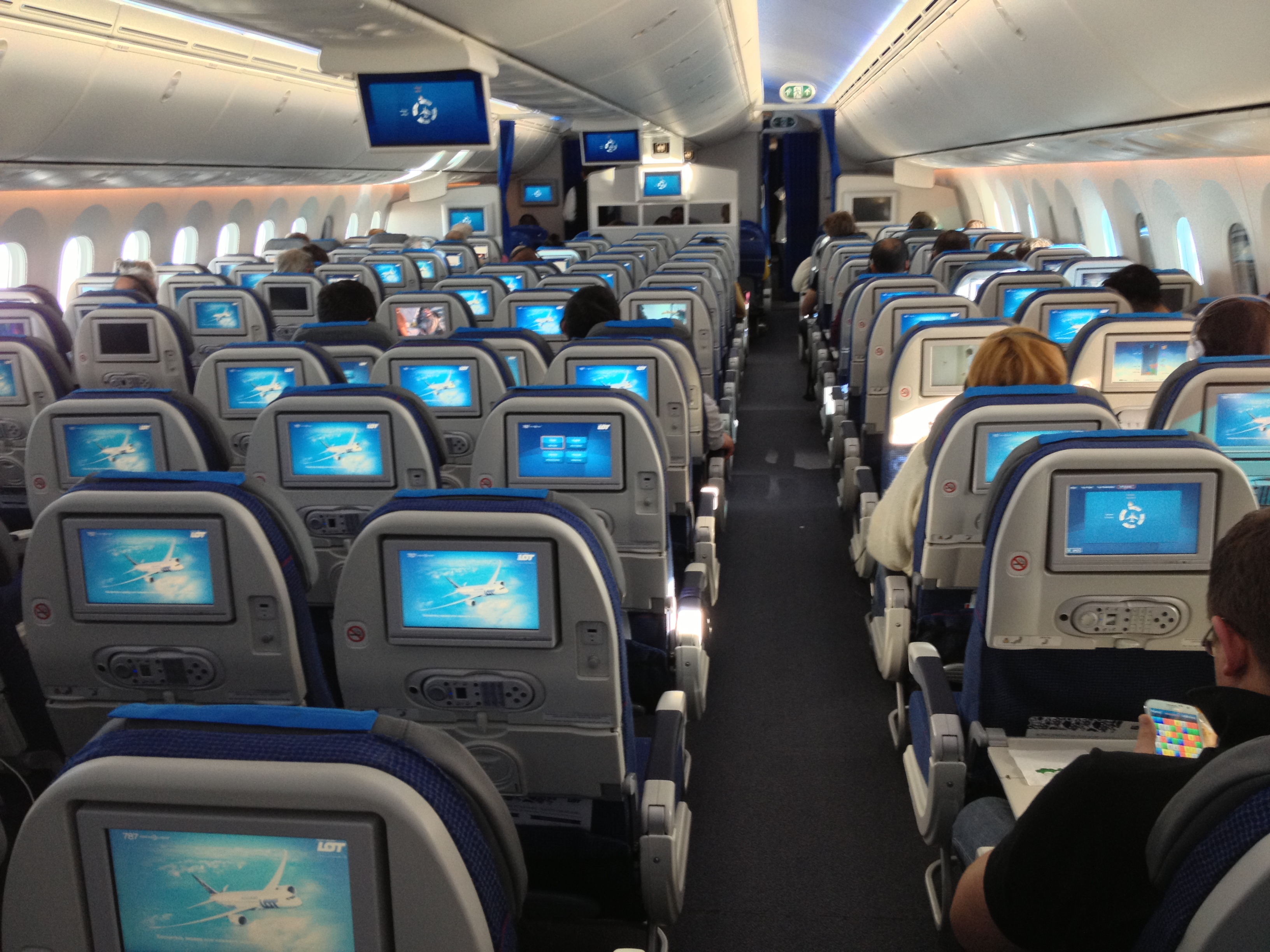 Boeing 787-8, owner - LOT Polish Airlines company, economy class cabin